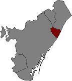 Location of Sant Adrià de Besòs in Barcelonès